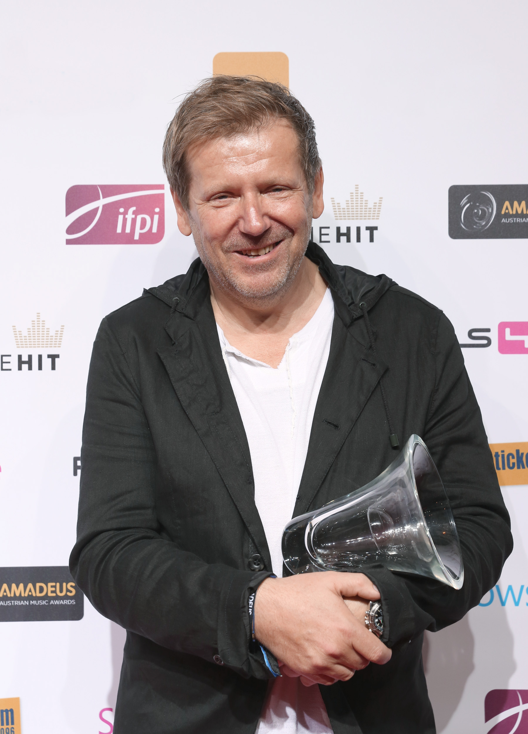 Eberhard Forcher at the Amadeus Austrian Music Award 2014 at Volkstheater in Vienna